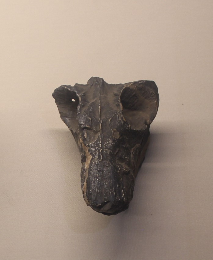 Skull of Urumchia lii on display at the Tianjin Natural History Museum.